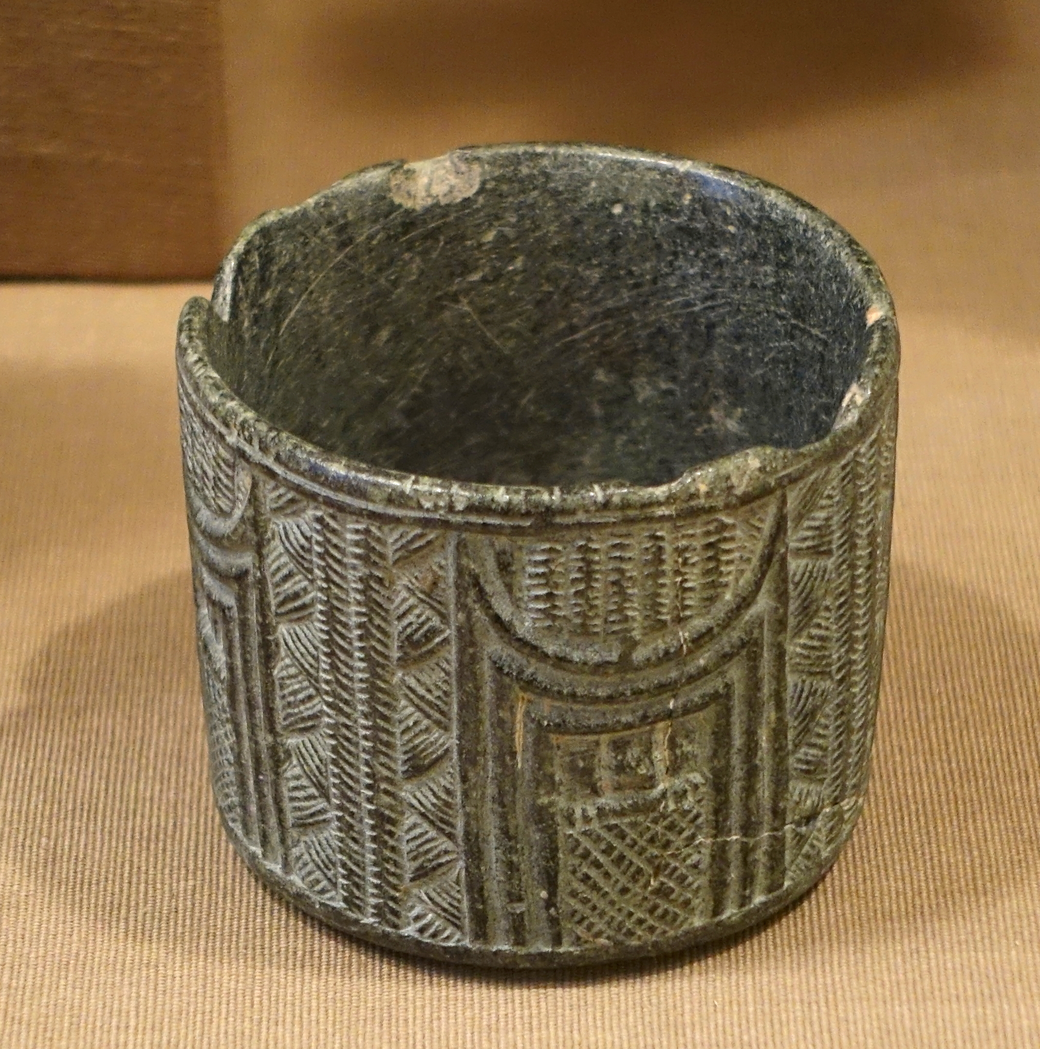 Exhibit in the Oriental Institute Museum, University of Chicago, Chicago, Illinois, USA. This work is old enough so that it is in the public domain.